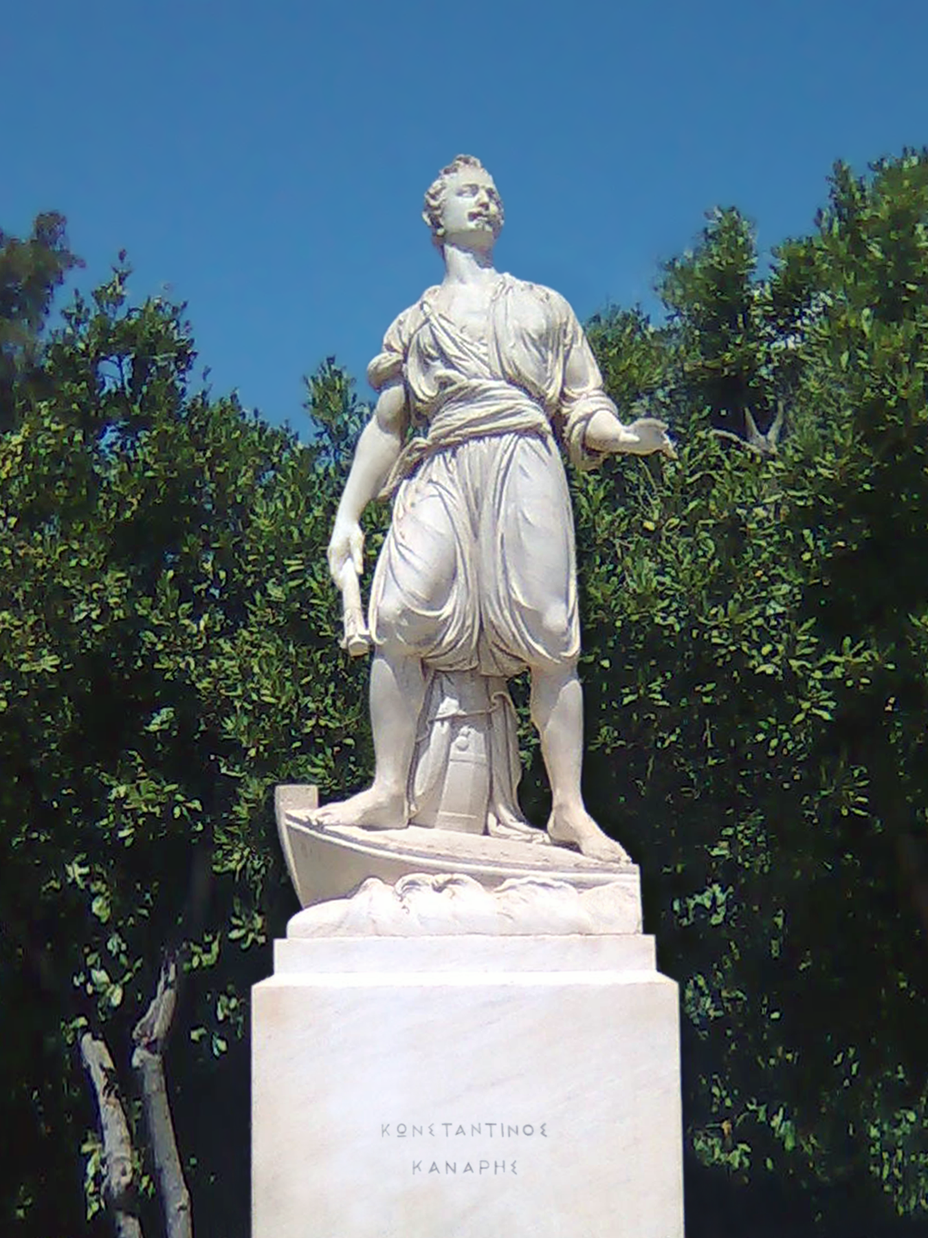 Monument of Constantine Kanaris in Kifelis Square in Athens (Kypseli). Work of Lazaros Fytalis (1831 – 1909).